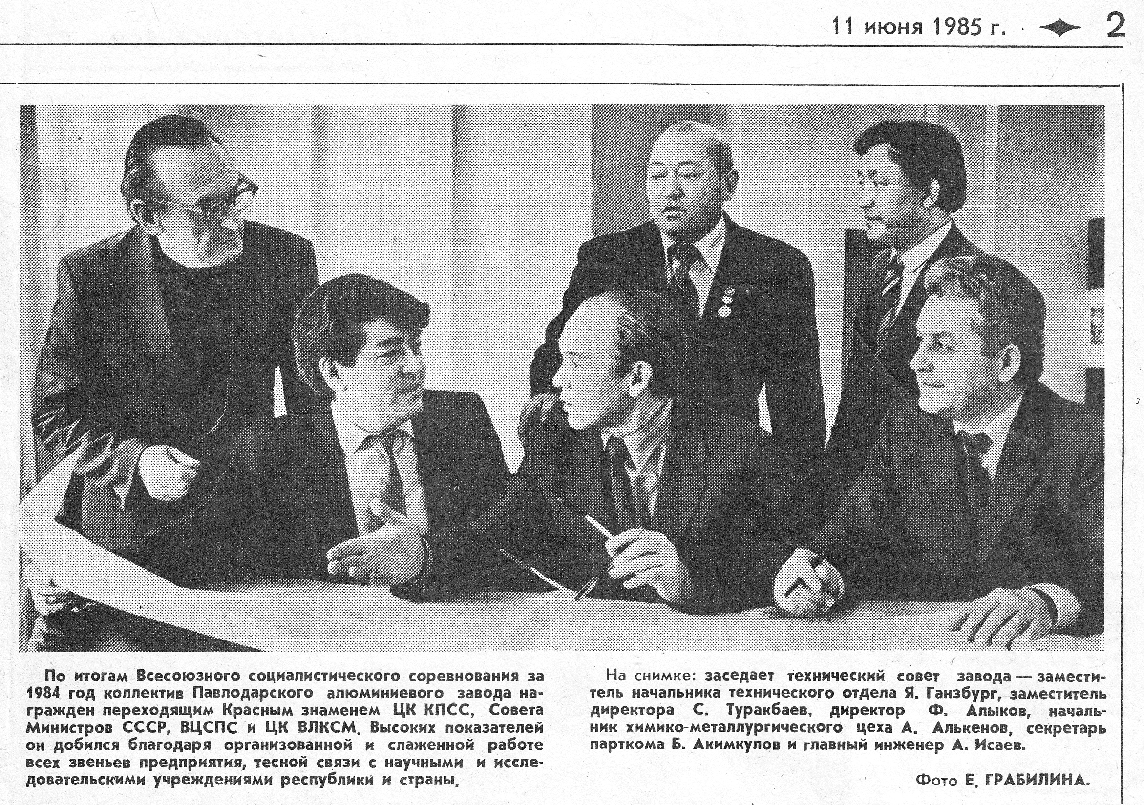 Фрагмент газеты Советская Индустрия от 11.06.1985